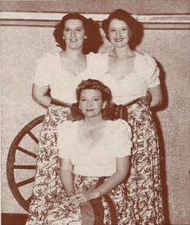 The Stafford Sisters Basing this on the identification of Christine as the person sitting, and the photo shown here of both Christine and Pauline Stafford, the two girls standing from left to right are Pauline and Jo, with Christine seated. The item is shown as being under copyright as of 1941. Copyright searches were performed on the following with the following results: American Music, Inc.-No titles matching the one of this music folio were found. Home and Hill Country Ballads-Copyrights were located for folios number 1 and 2, but no others; this folio, number 5, was not listed. There is no evidence a copyright was renewed and continues to be claimed on this item.